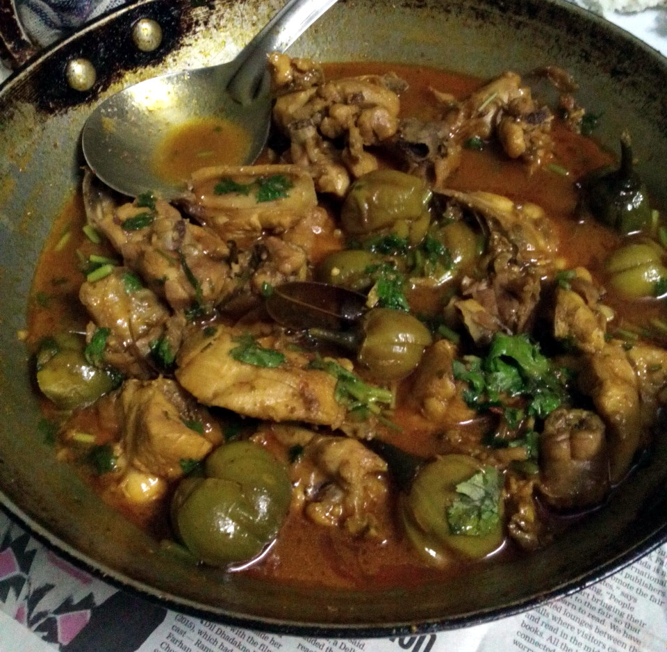 Chicken cooked with Bitter Tomato in North-East India.